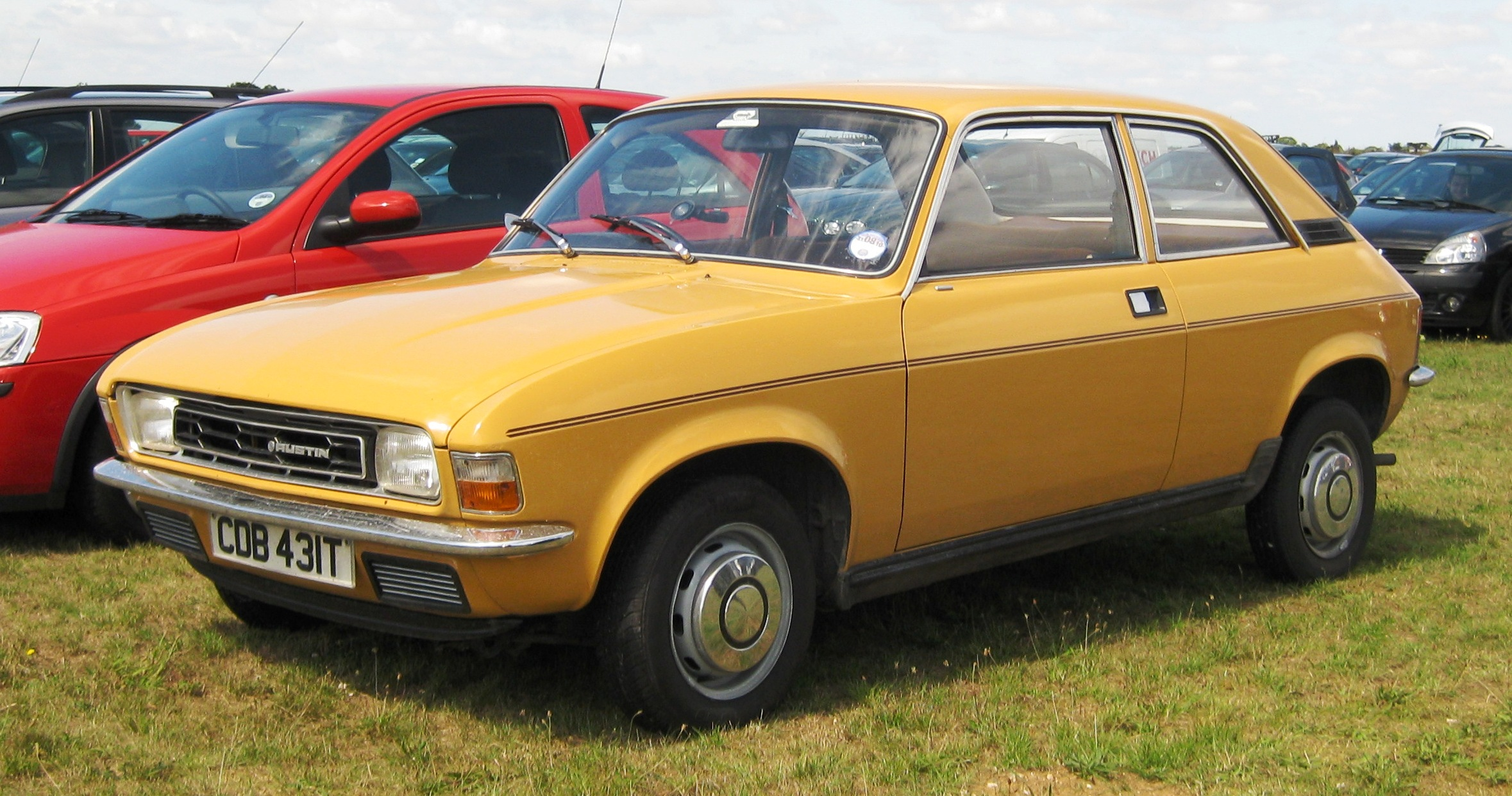 Austin Allegro 1300 2 door at Snetterton